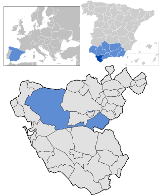 Map with Jerez de la Frontera position, Andalusian municipality, Spain